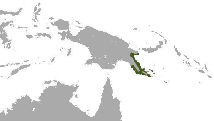 Eastern Common Cuscus (Phalanger intercastellanus) range